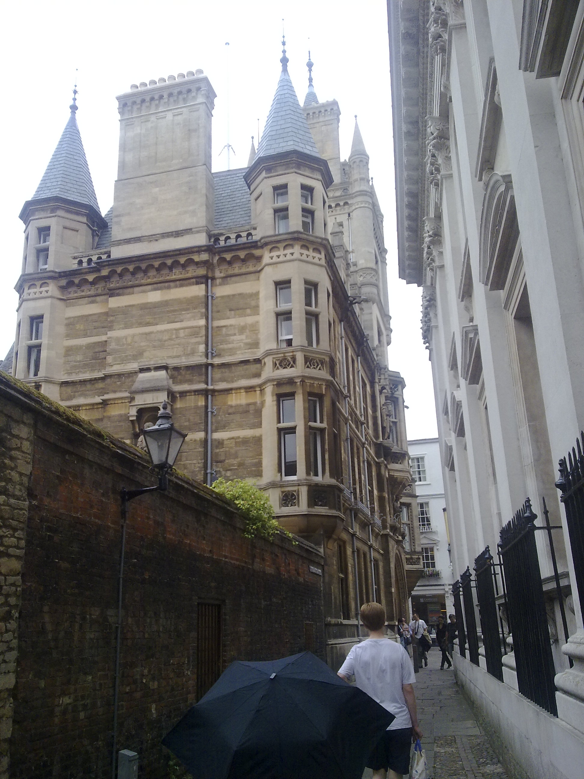 The exterior of Gonville and Caius College as seen from Trinity Lane, looking towards Trinity Street, Cambridge.